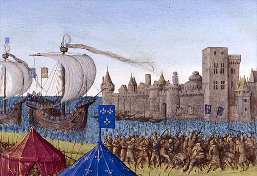 Battle of Tunis Česky: Bitva o Tunis (1270)